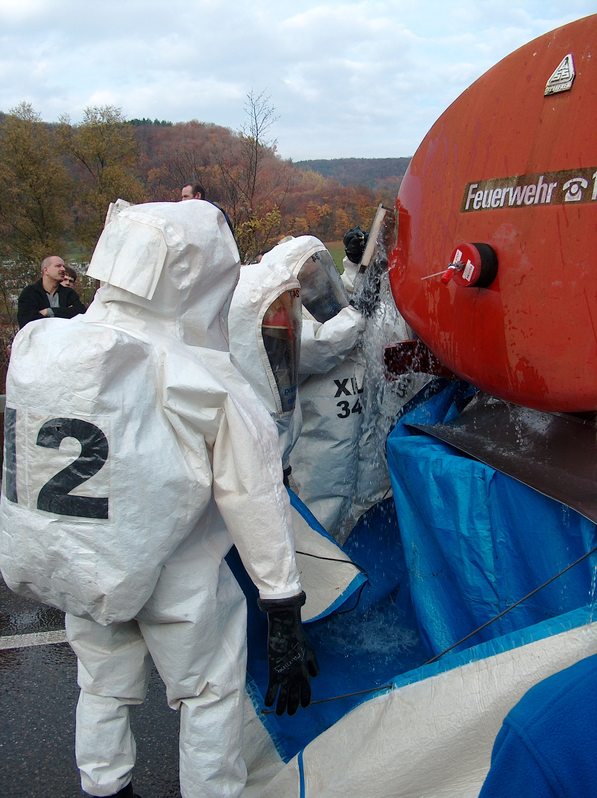 Supponierter Gefahrgutunfall (Benzin) an der Hauptübung "Senza Limiti" der Stützpunktfeuerwehren Liestal und Sissach, der Feuerwehr Lausen, der Betriebswehr der SBB, der Chemiewehr und des Katastrophenschutzes, in Lausen, Höhe alter Bahnhof/Güterterminal; Abdichten der Leckstelle